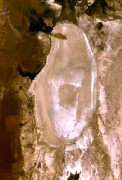 Alvord Lake in Oregon, USA NASA NLT Landsat 7 image. Final image made using NASA World Wind.